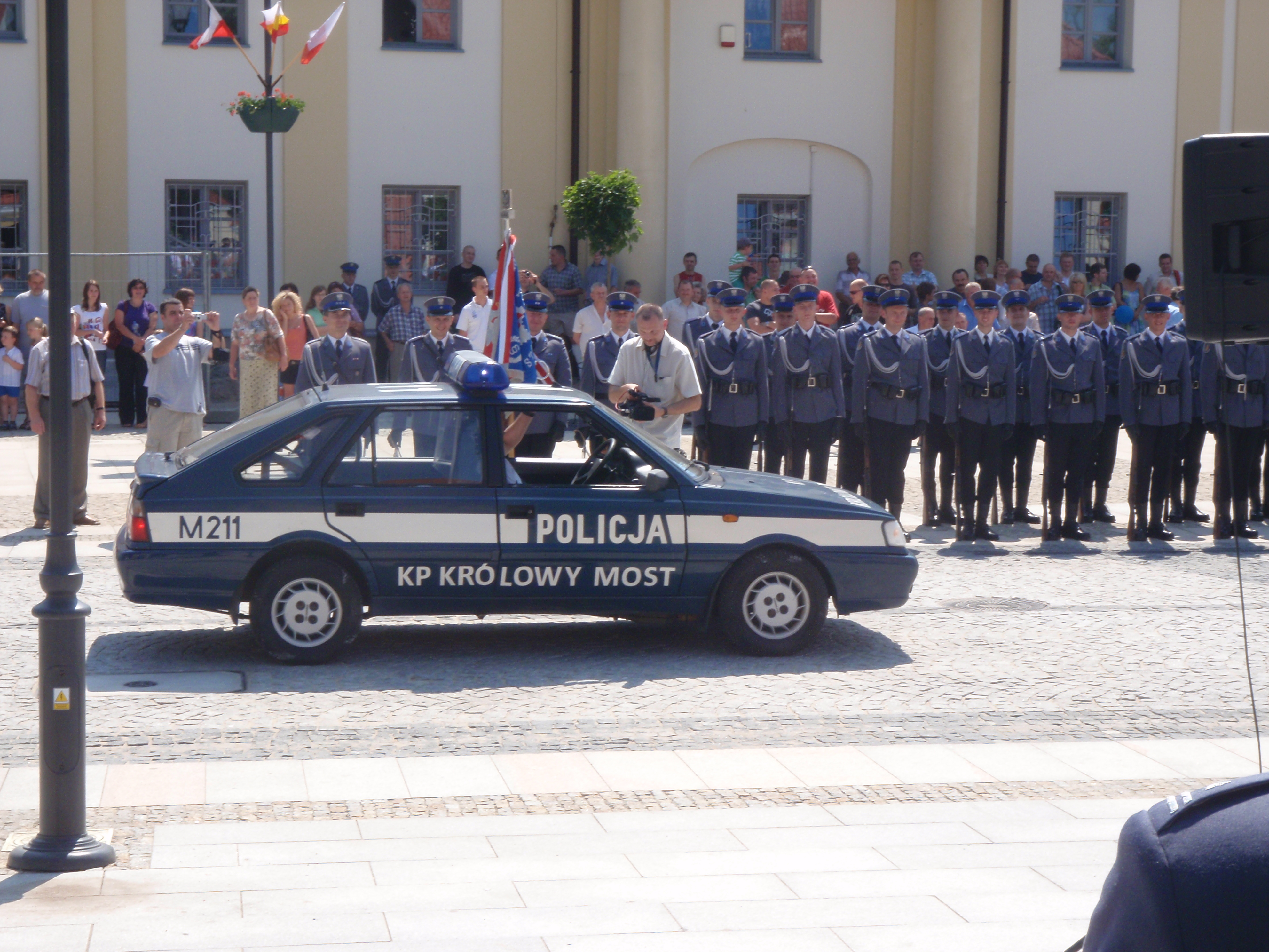 Last Police Polonez in Podlaskie Voivodeship, during Police Day in Białystok. Inscription "KP KRÓLOWY MOST" is occasional only (a reference to a popular Polish movie "U Pana Boga za piecem", taking place in Podlaskie Voivodeship).